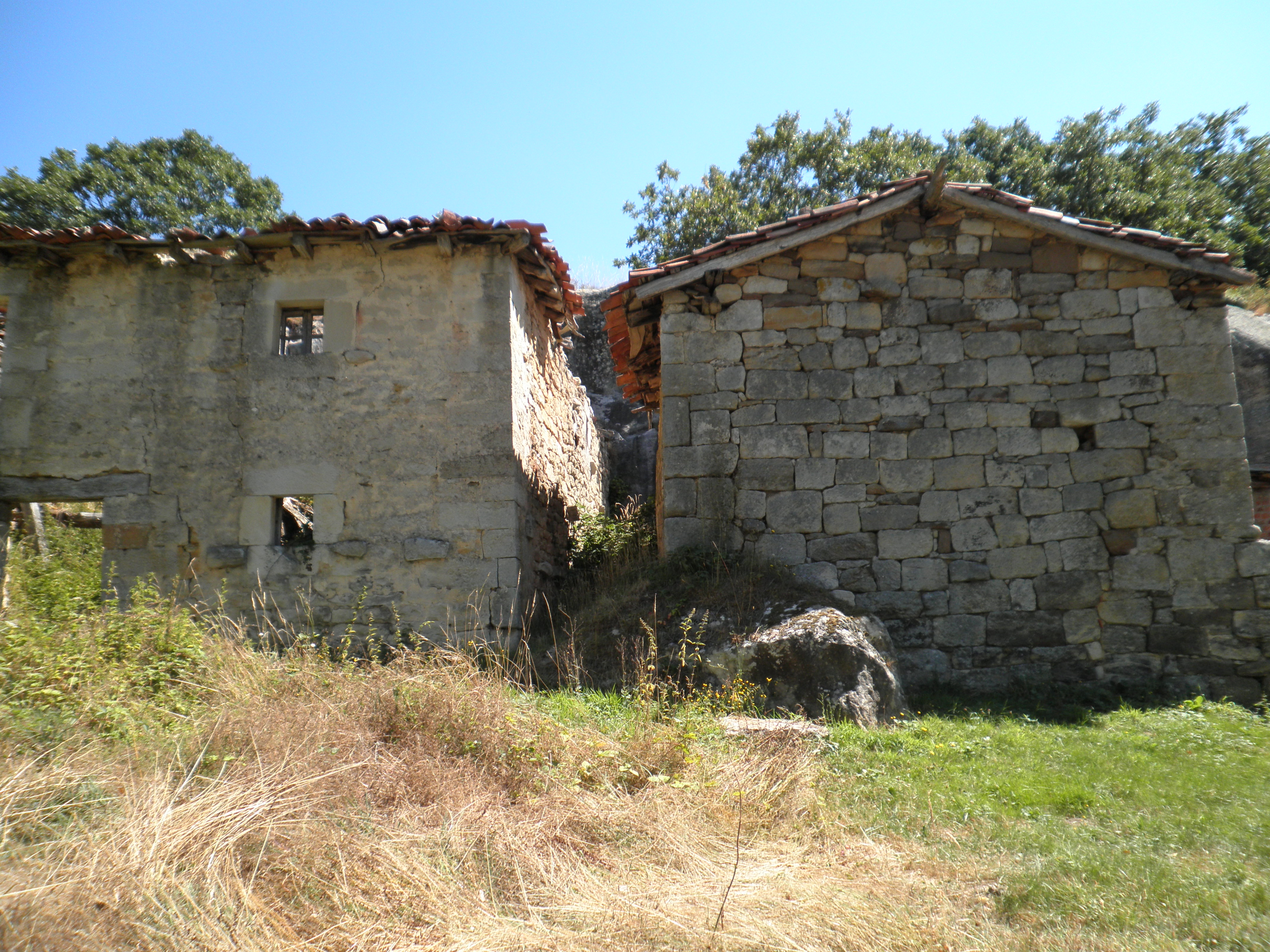 House in Presillas